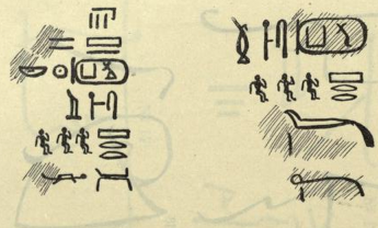 Red ink inscription from the stairway of the pyramid of Baka with the name of the crews of workmen, excavations of Barsanti, 1905 drawing